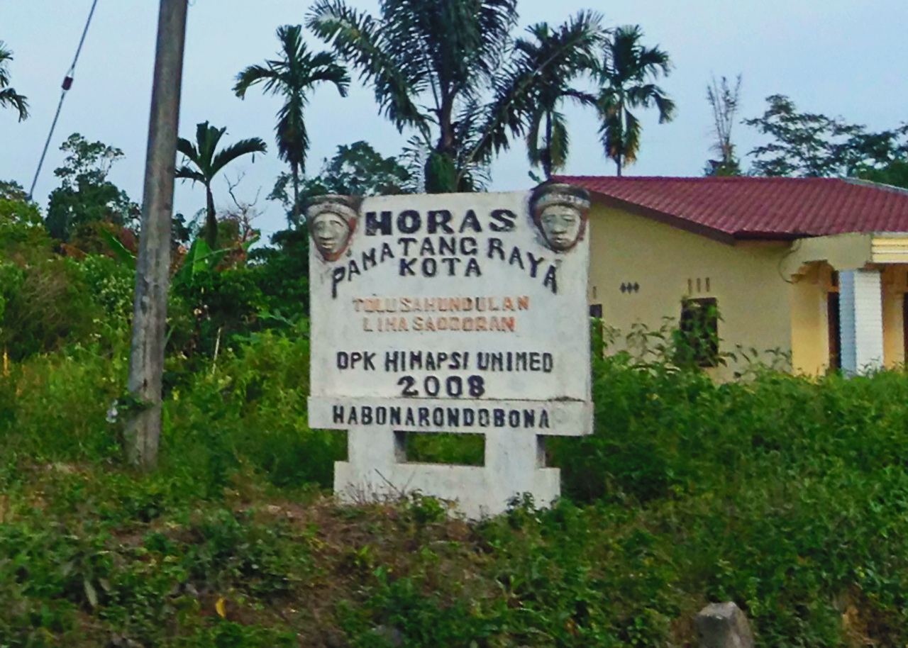 Welcome gate to Pamatang Raya, Raya, Simalungun